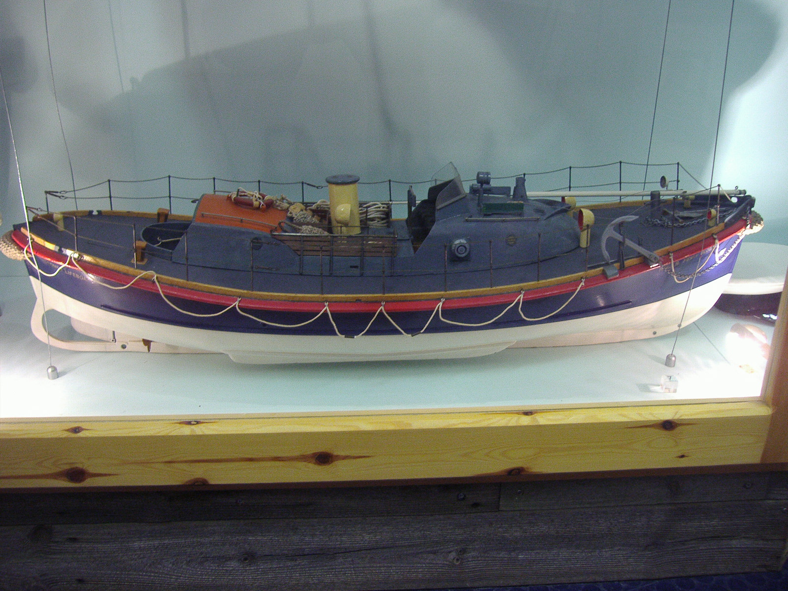 A Photograph of a model of the Lifeboat "Henry Blogg" taken at the Henry Blogg museum in Cromer on the 14th February 2008 by Stavros1 (talk) 21:27, 16 February 2008 (UTC)